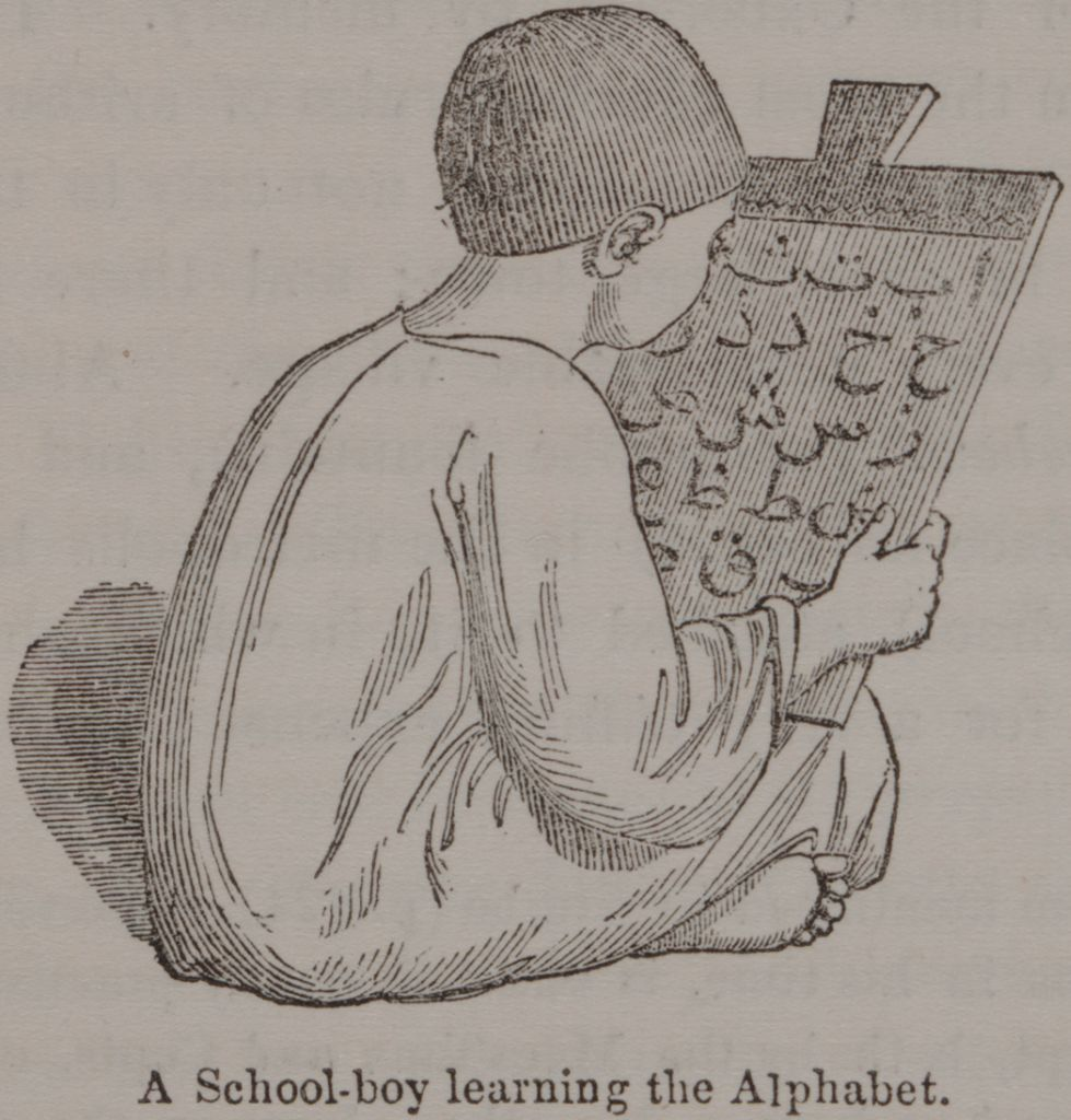 A boy sitting on the floor reading letters from a board. Engraving (prints).